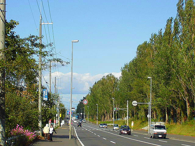 Hokkaido Prefectural Road 82 Nishino-Makomanai-Kiyota Line, Sapporo, Japan